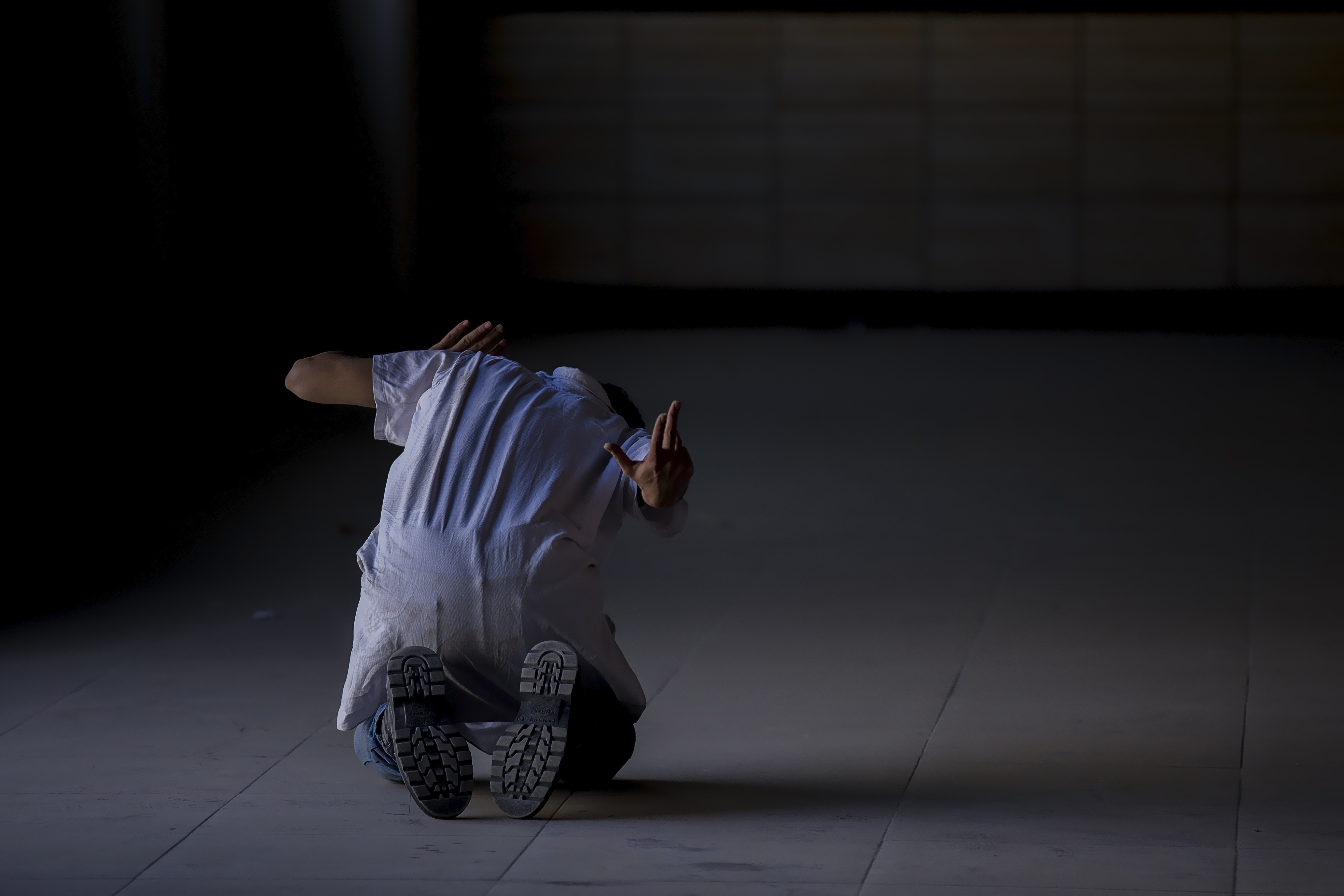 bak performance, plus 4 is a work demonstration in commision with Internation Fajr Festival by Garage Theater Company. In this demonstration/performance/lecture we see the way that Garage theater makes performance and finally they perform a piece of their last performance. Garage Theater Company has nominated as the best theater company in Iran. Actor: Hani Abdolmajid photographer: Mostafa Meraji